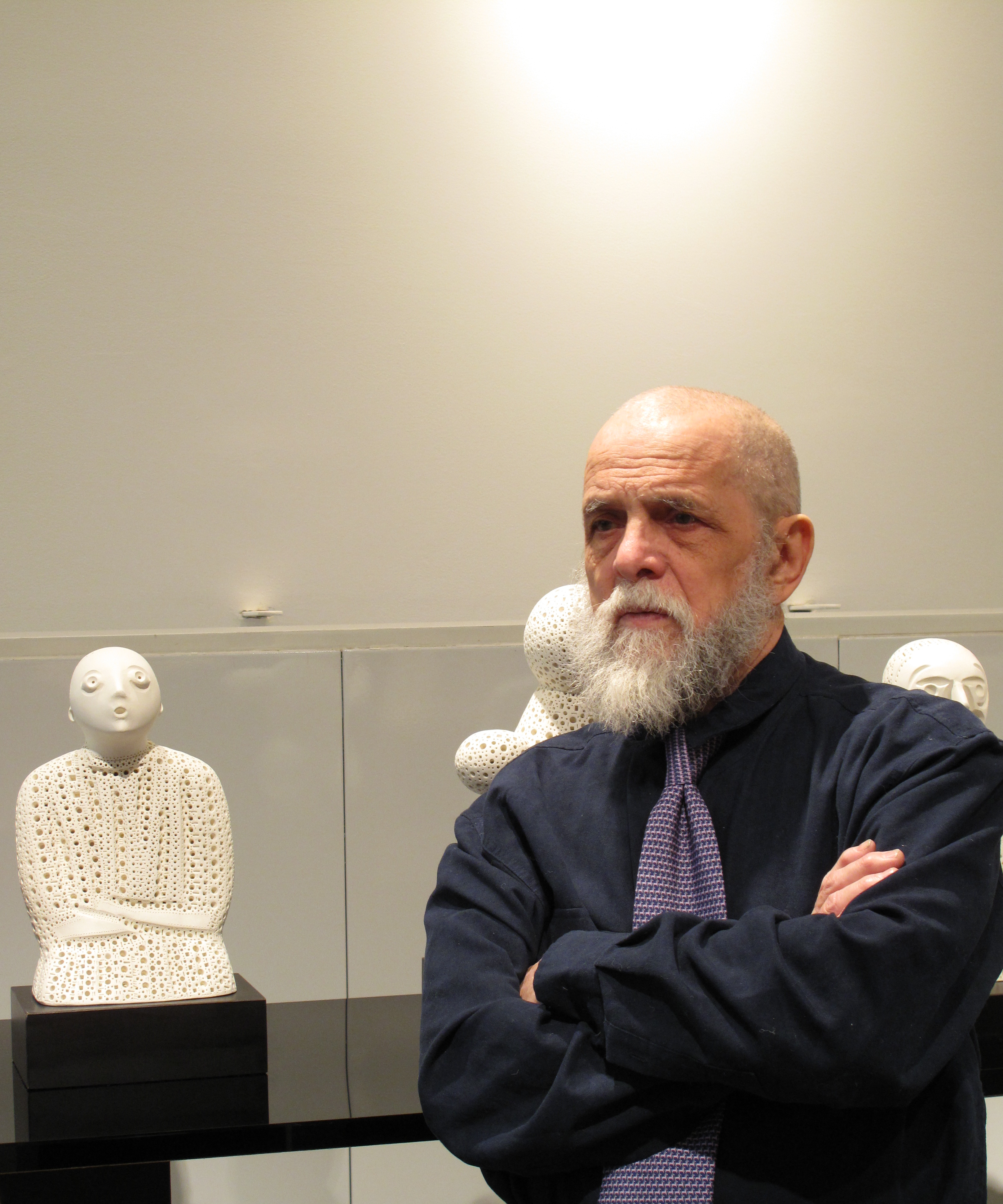 Alexander Ney in 2009.